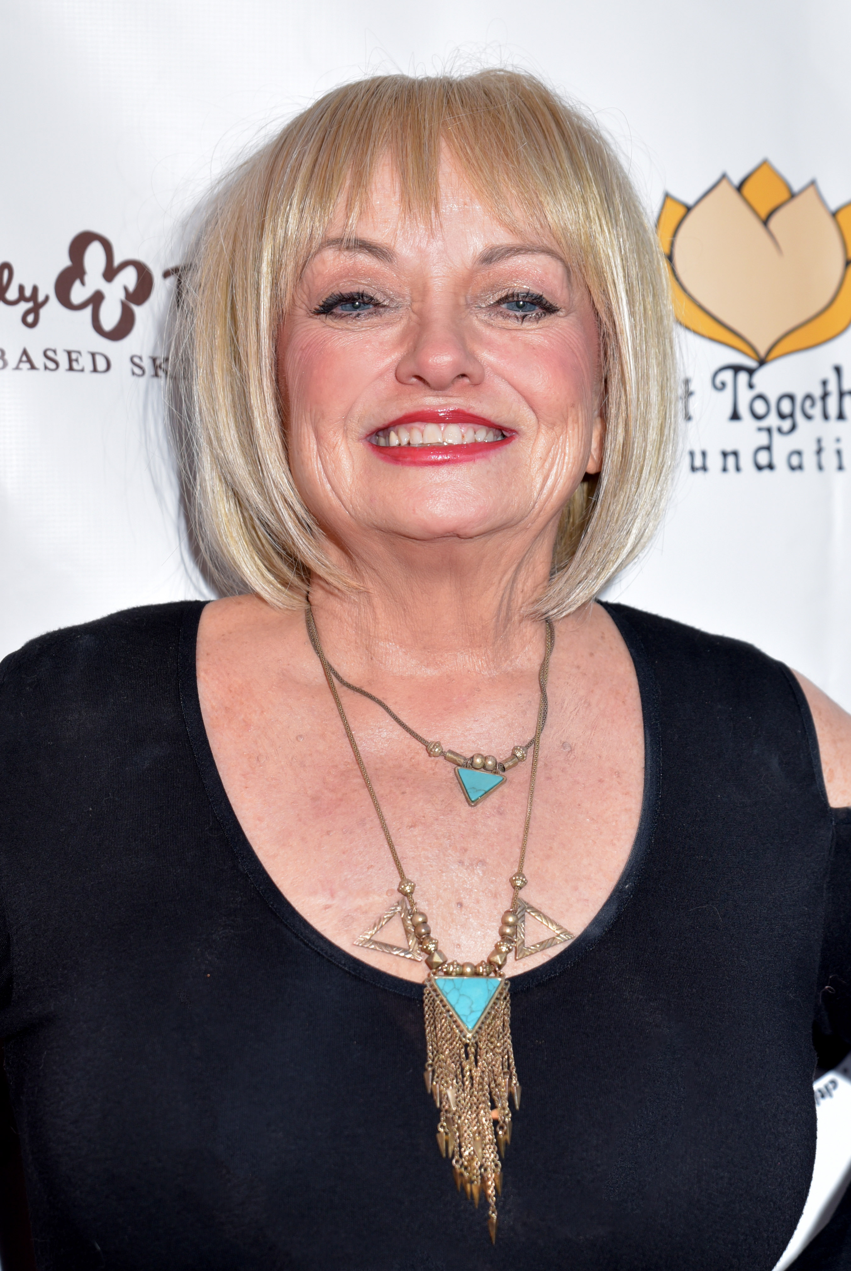 Rosemary Butler arrives for the California Saga 2 Charity Concert in Los Angeles California on July 3, 2019